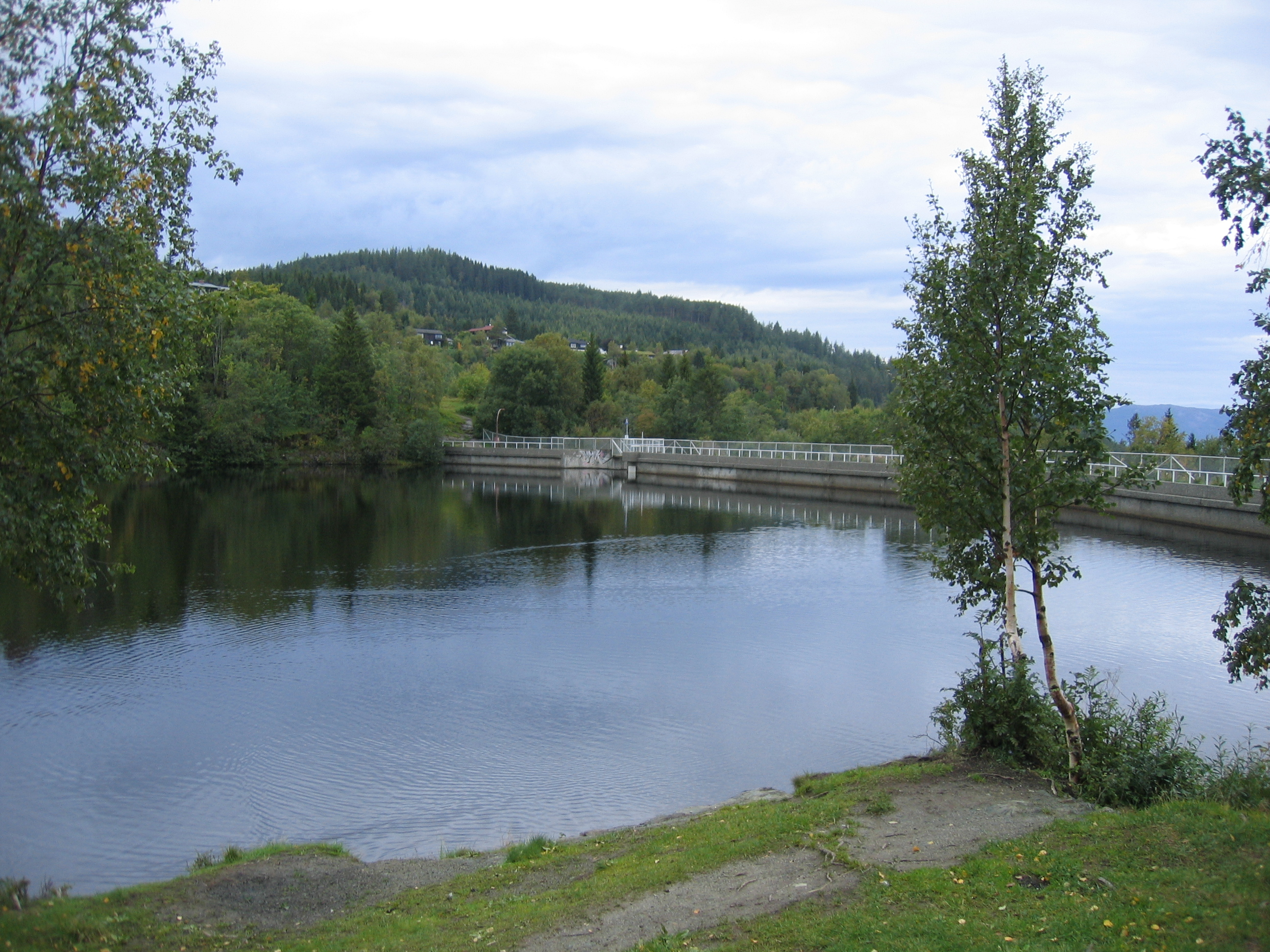 Teisendammen near Trondheim, Norway.